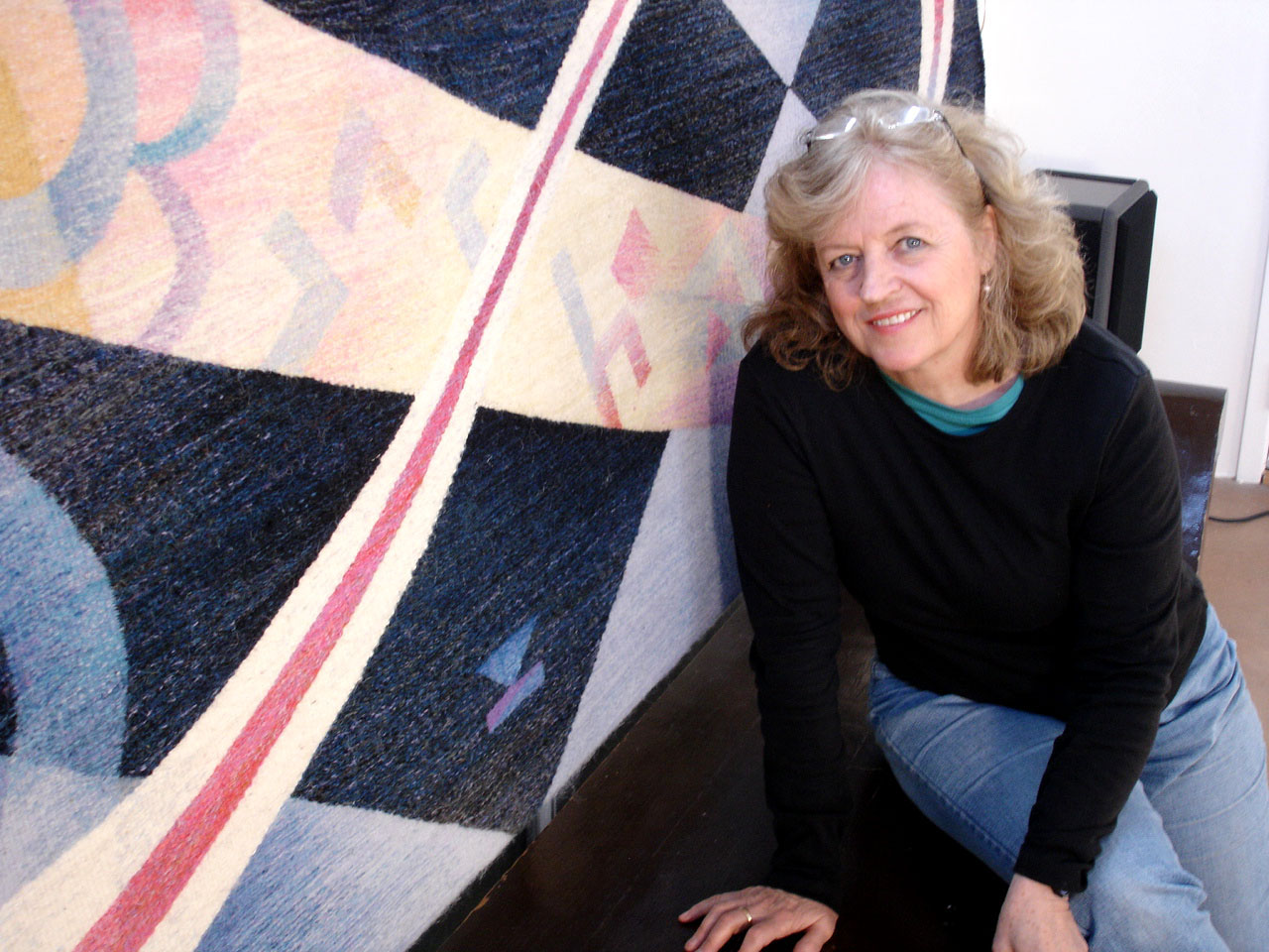 picture of Nancy Kozikowski at her studio